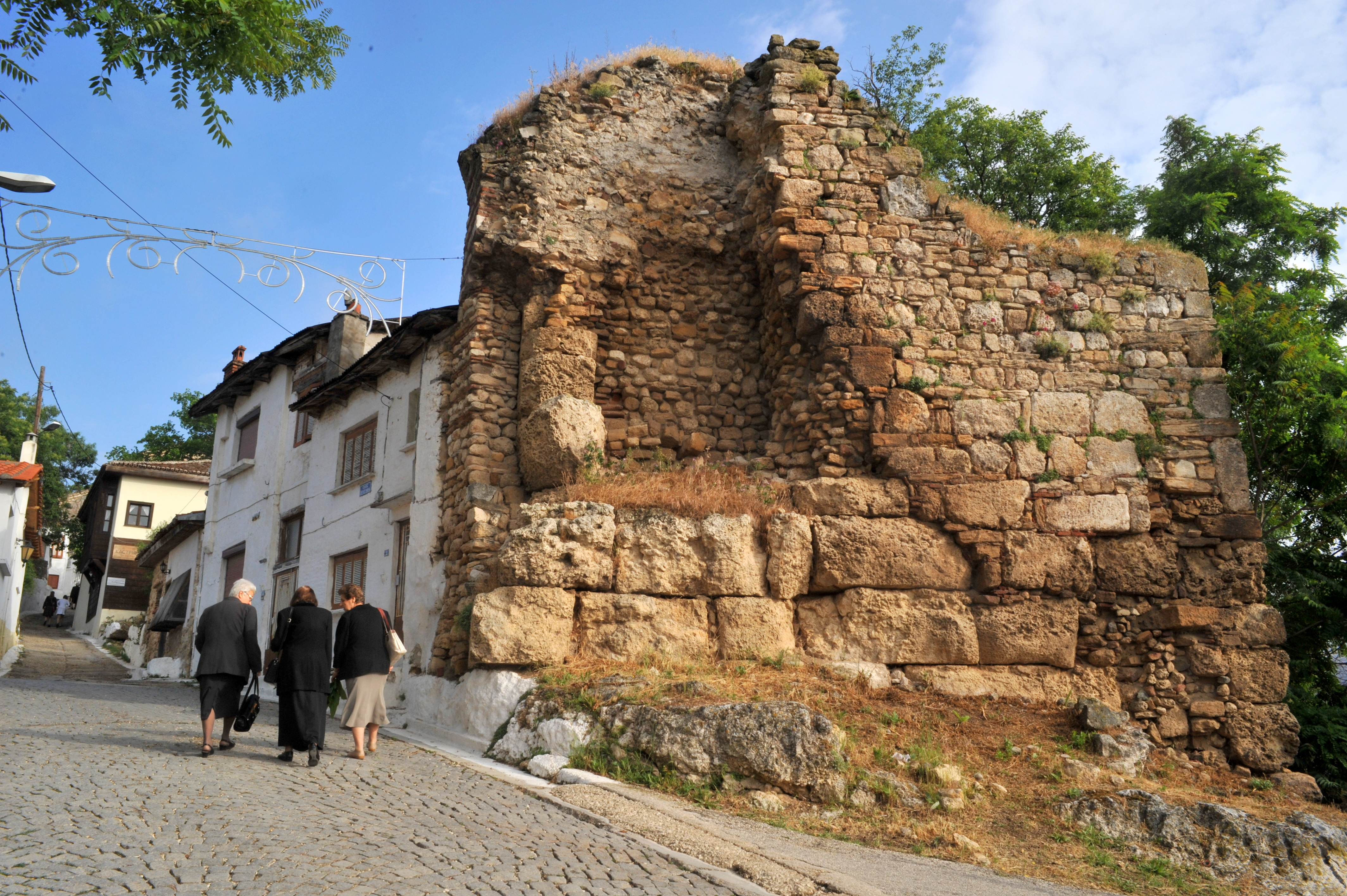 Walls at castle - Didymoteicho, West Thrace, Greece.